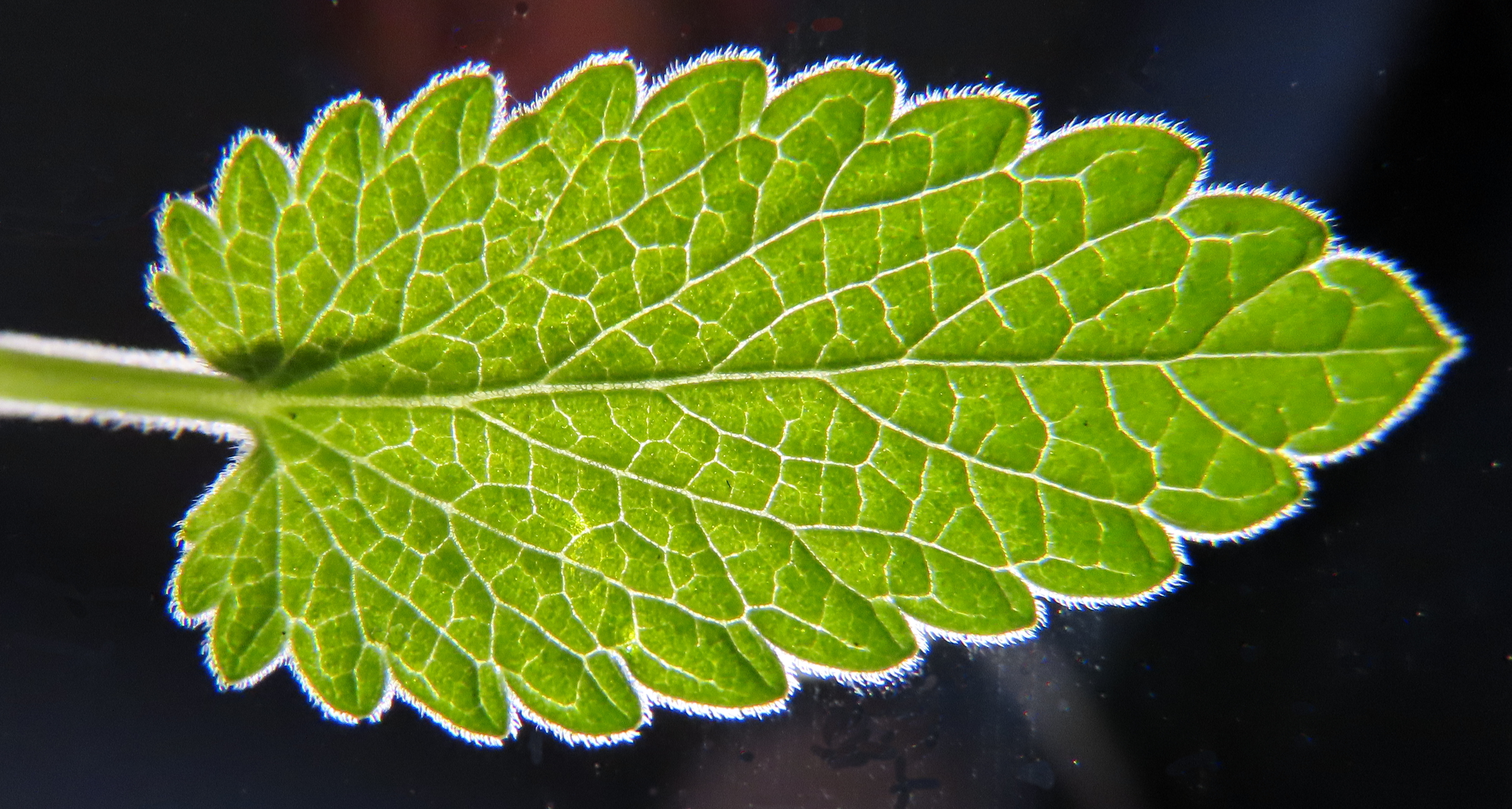 Leaf veins and velutinous hairs of a leaf of a large species of Nepeta, showing anostomosis of veins, a leaf margin that might be described as either coarsely crenate, or bluntly dentate, and various other features. The leaf was from a garden plant, not locally indigenous.